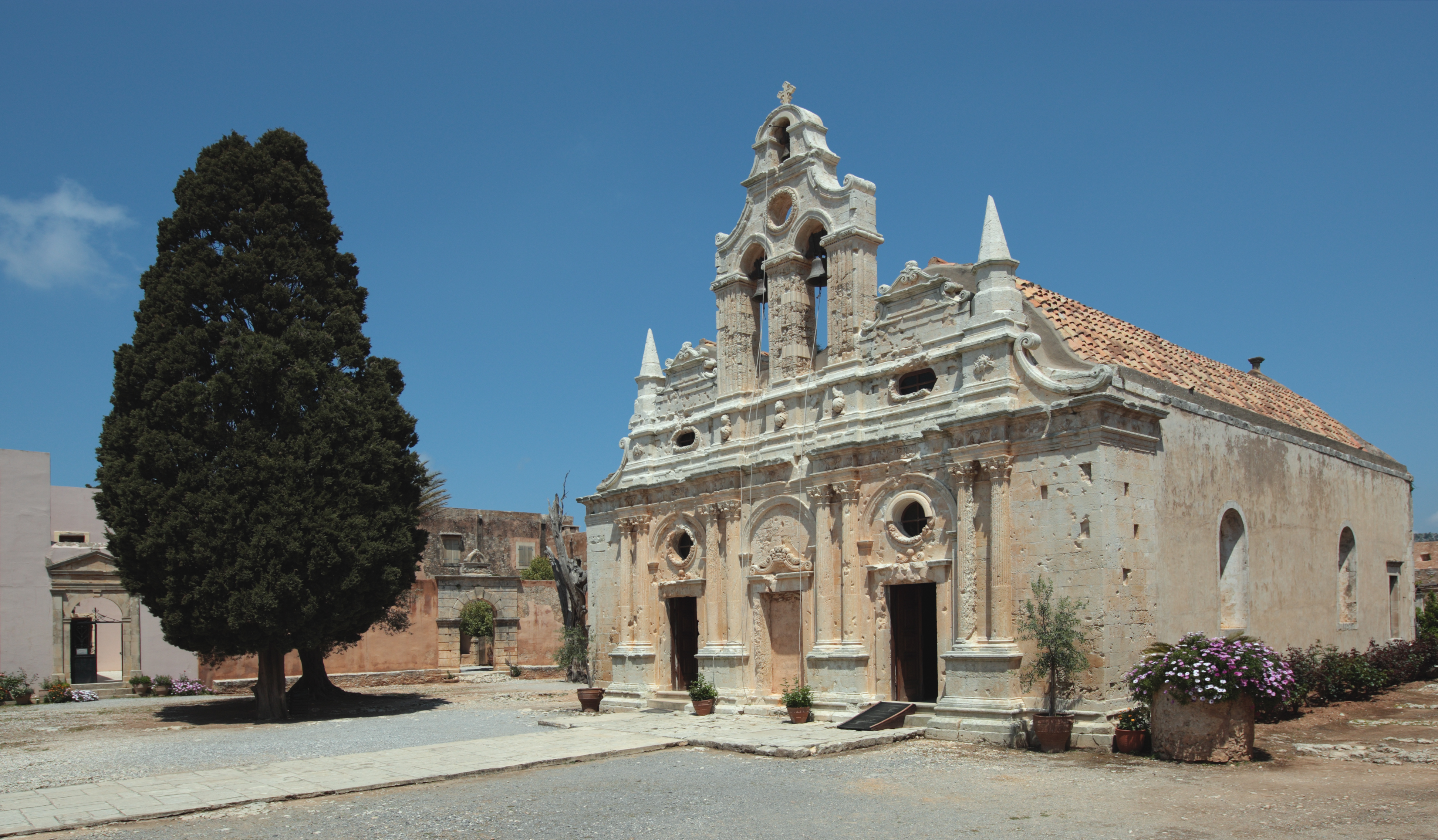 The Arkadi Monastery, Crete